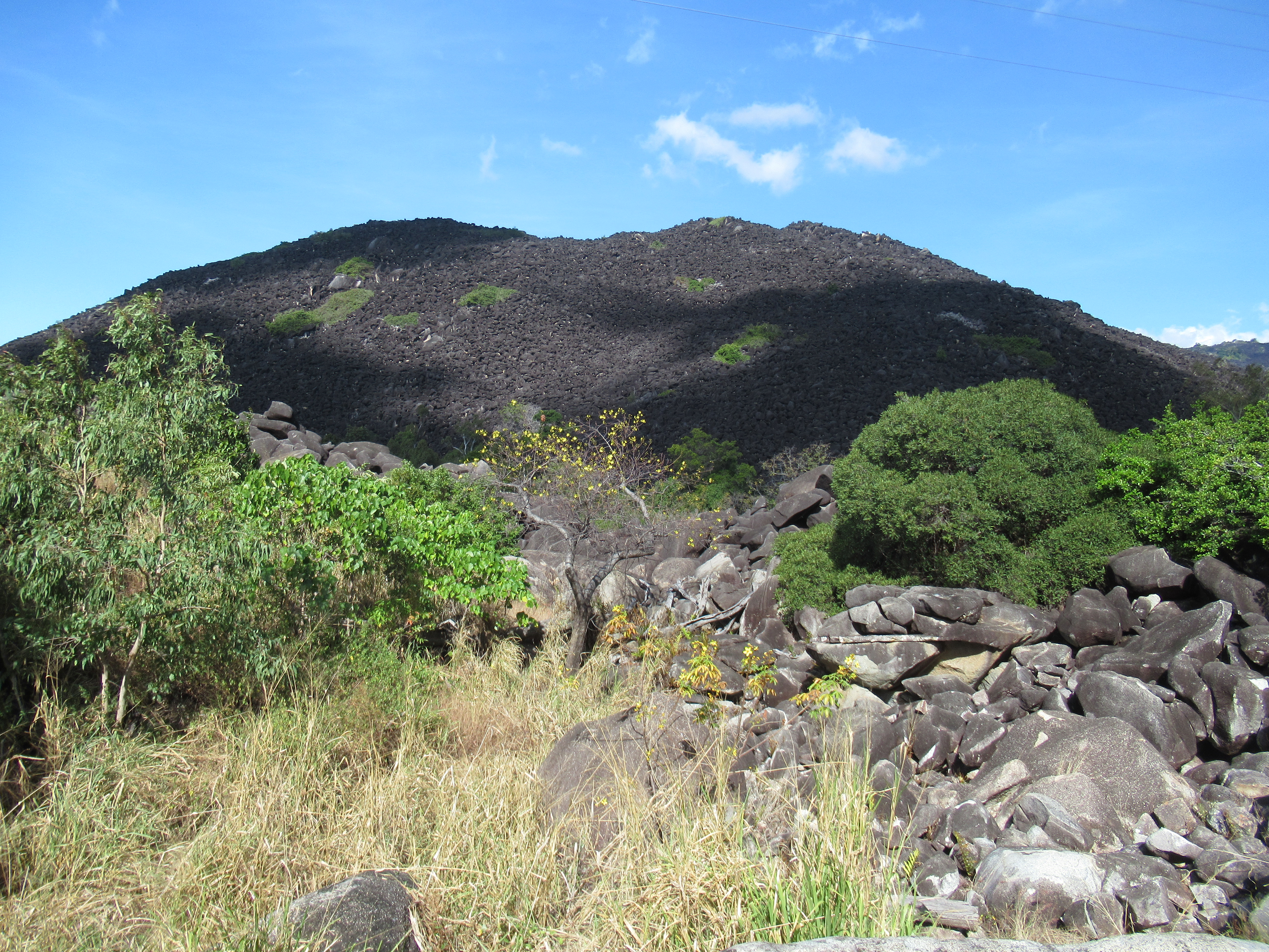 Black Mountain in Black Mountain (Kalkajaka) National Park near Cooktown, Queensland, Australia. The mountain's grey granite boulders are blackened by a film of microscopic blue-green algae growing on the exposed surfaces.